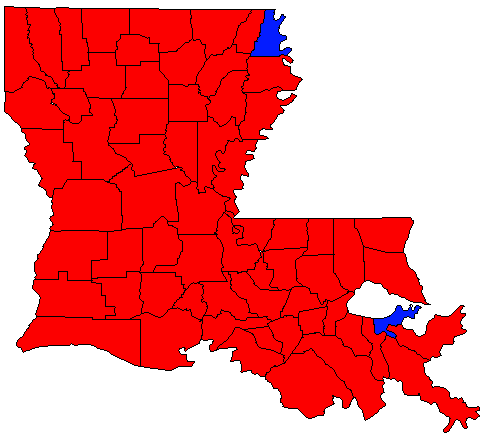 October 23, 1999 Louisiana Gubernatorial Election results by parish. [1] Red – Parishes in which candidate Mike Foster obtained a plurality of majority of the votes cast. Blue – Parishes in which candidate William J. Jefferson obtained a plurality of majority of the votes cast.